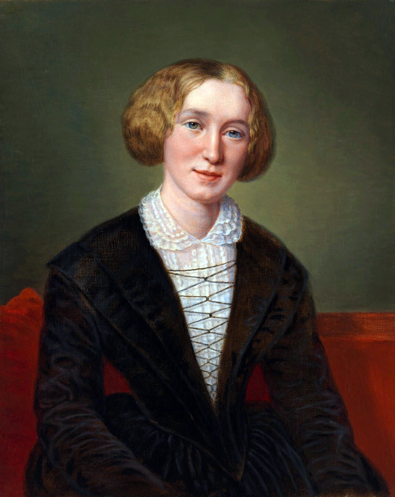 George Eliot (1819-1880), aged 30, by the Swiss artist Alexandre-Louis-François d'Albert-Durade (1804-1886), whose family she lived with while in Switzerland. [1][2]